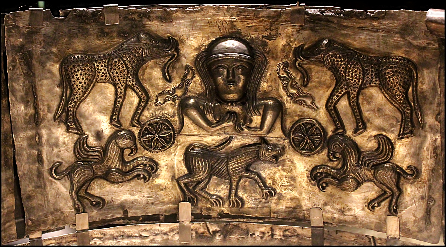 Gundestrup cauldron, interior plate 4. Copy by galvanoplasty, museum of Bibracte, exhibition at the Cité des Sciences, Paris ("Les Gaulois, une expo renversante").